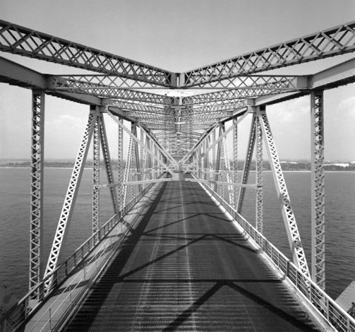 Marine Parkway-Gil Hodges Memorial Bridge, view of the roadway